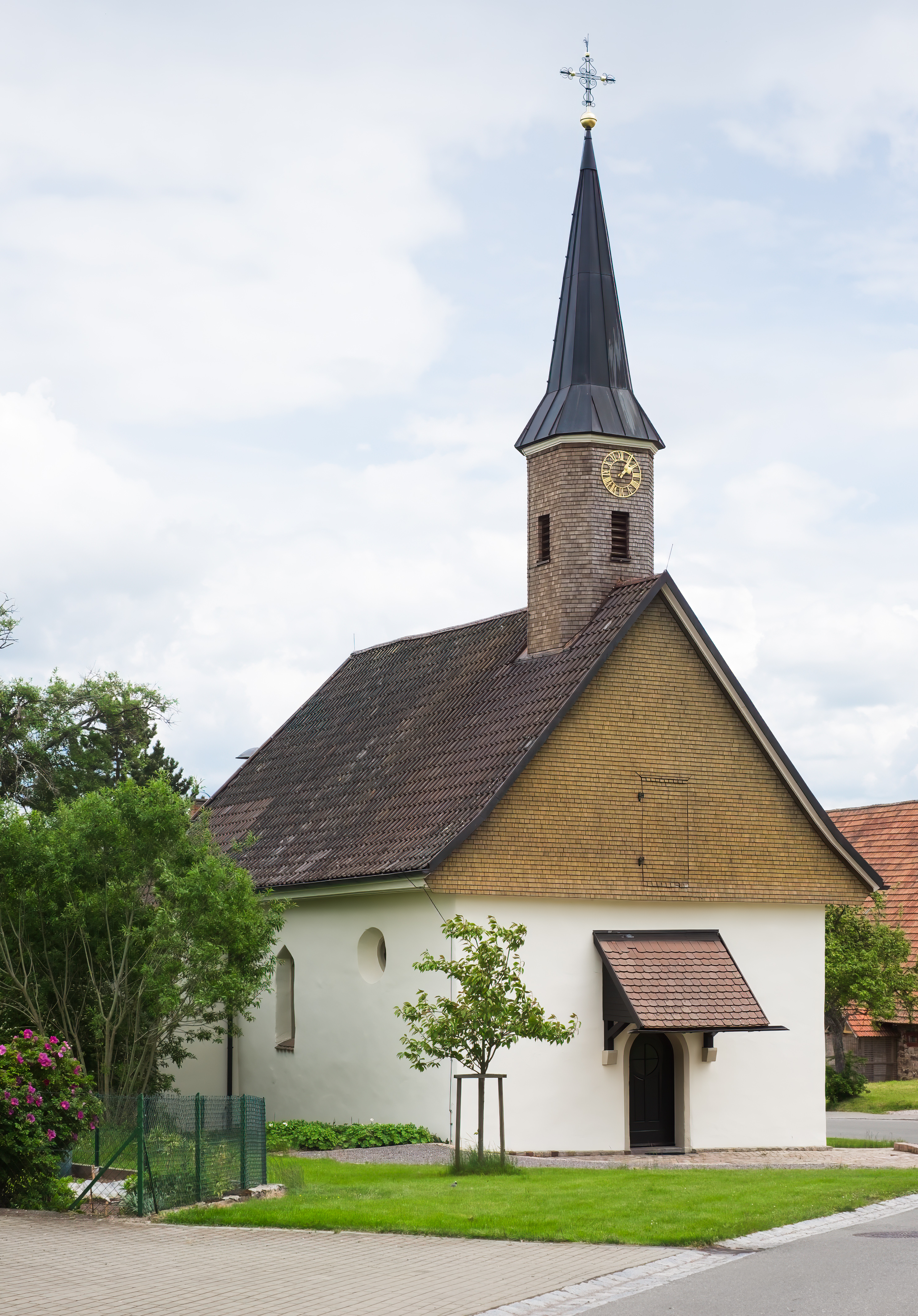 Chapel Marcuskapelle Bräunlingen-Mistelbrunn, district Schwarzwald-Baar-Kreis, Baden-Württemberg, Germany